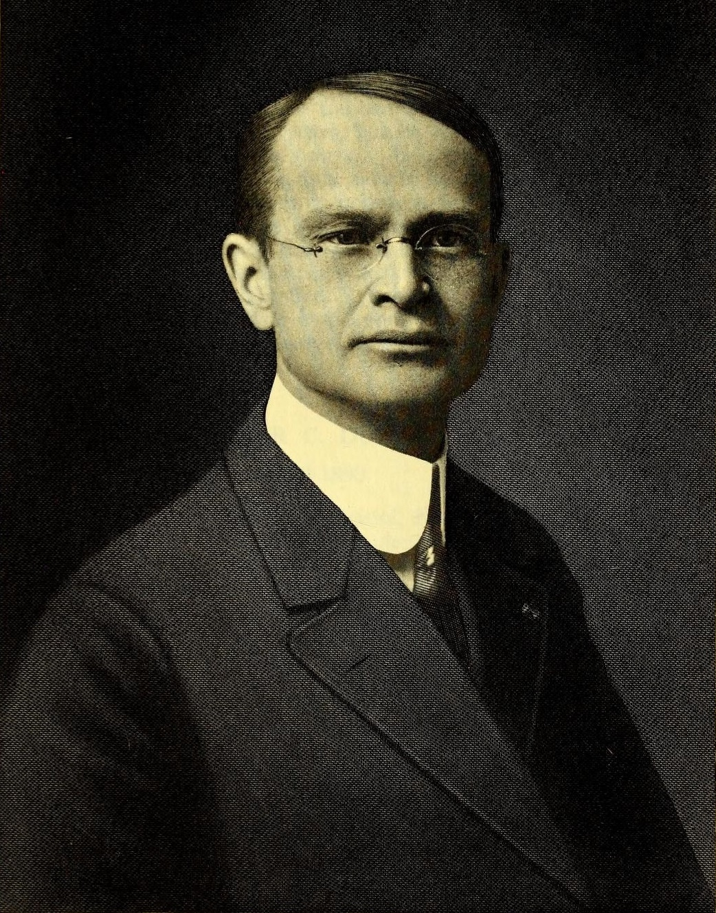 Max L. Powell (Vermont State Senator)